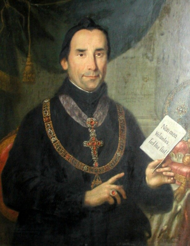 Pankraz Vorster, last Prince-Abbott of St. Gall, Switzerland